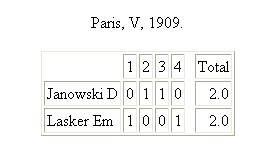 Chess_match 1909_Lasker_-_Janowski_a